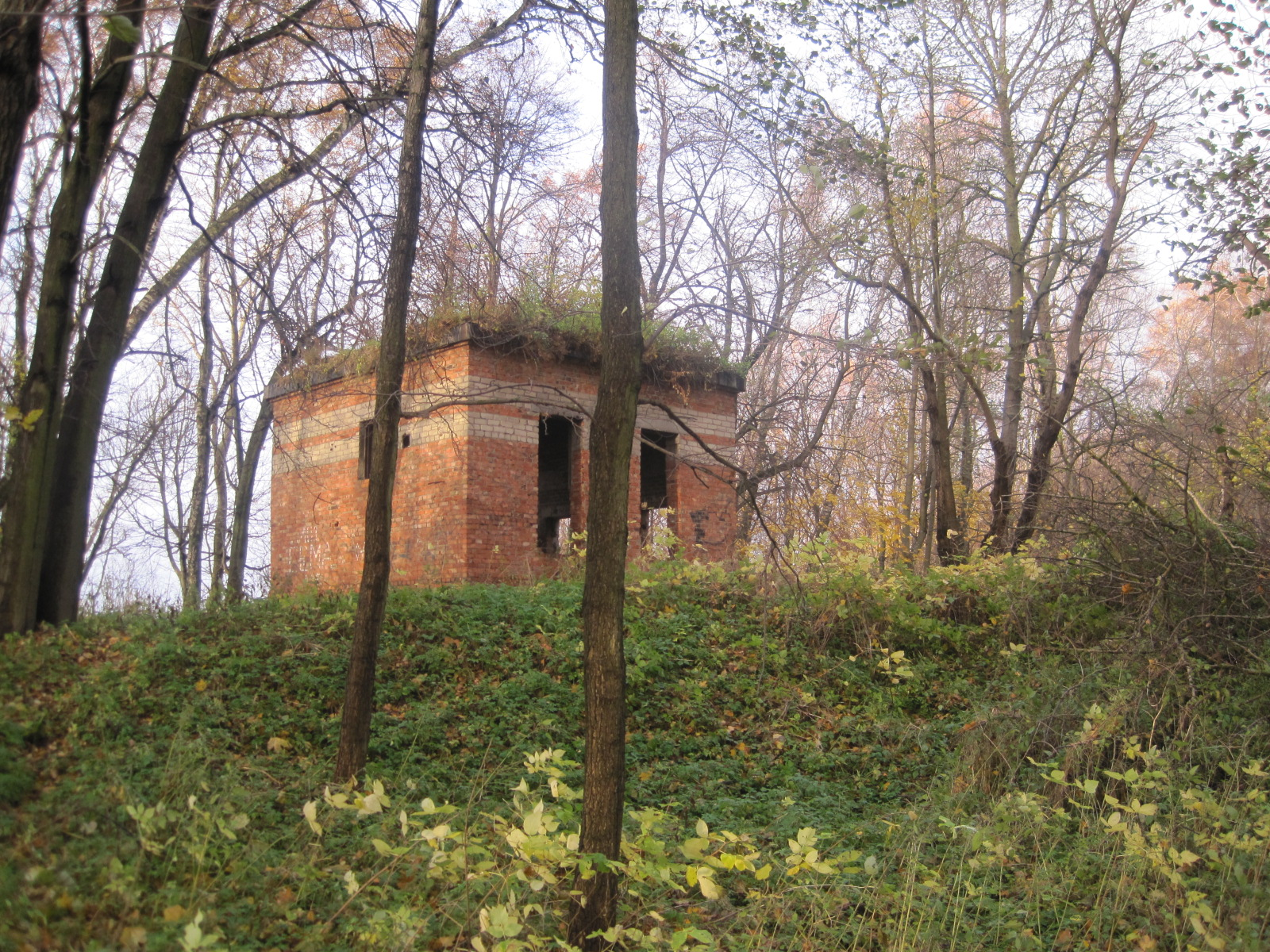 Old water-pump station in Donskoe, Kaliningrad Oblast